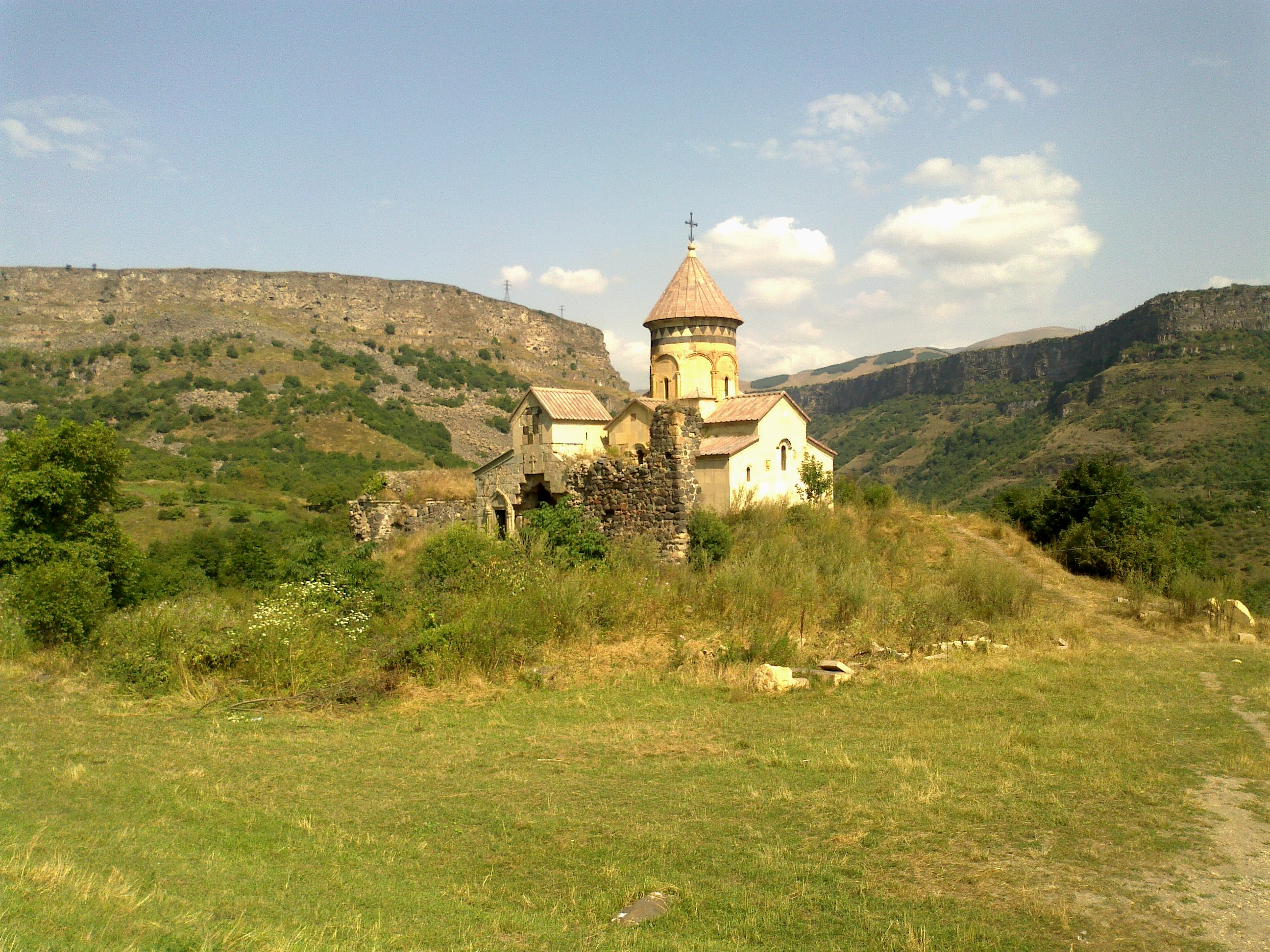 Hnevank Monastery in Armenia 57/19